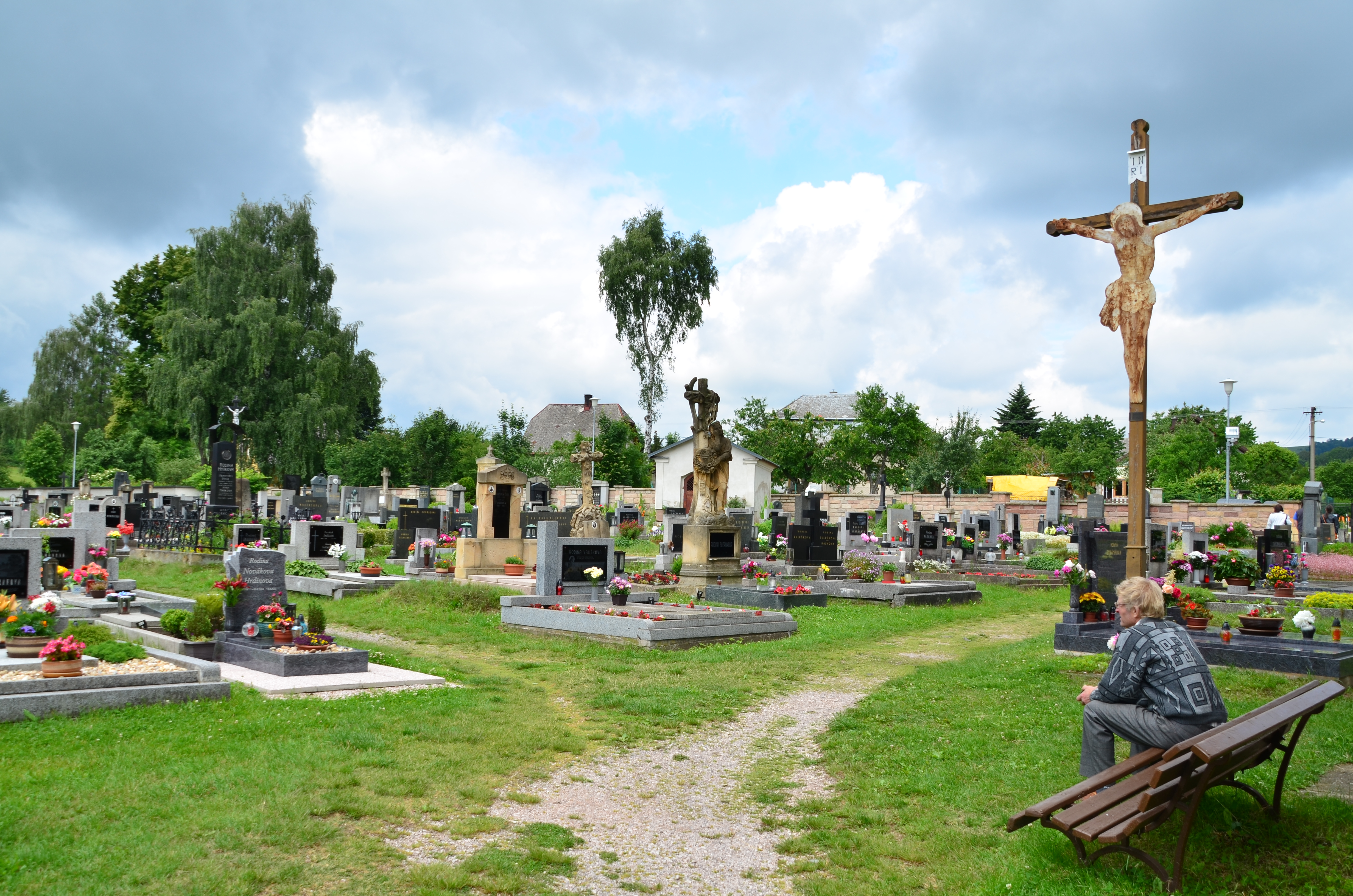 north view from the portal